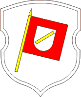 Coat of Arms of Smolensk (1584, modern image)